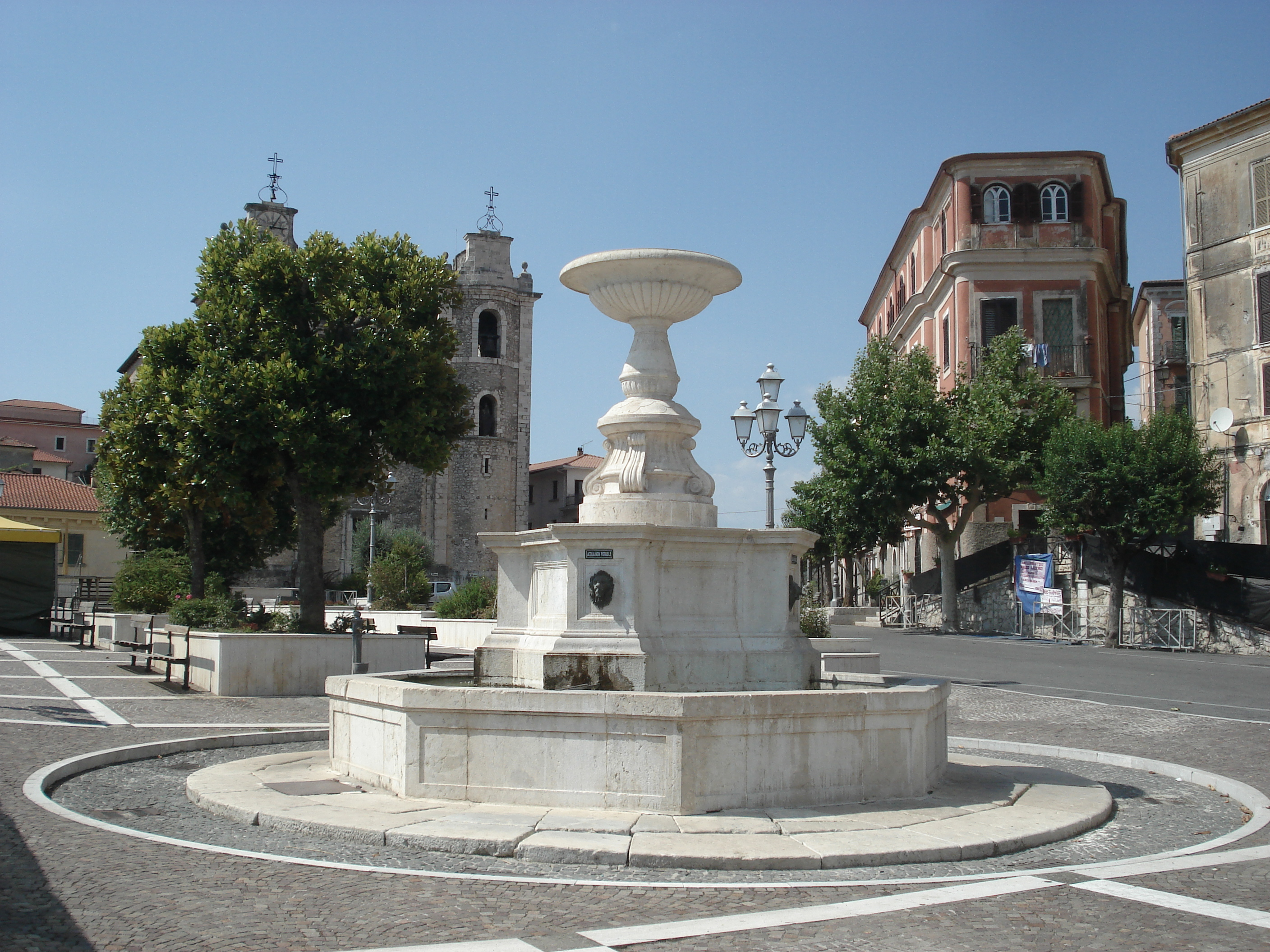 Monumental fountain (1874) in Umberto I Square, in Arce, Italy.